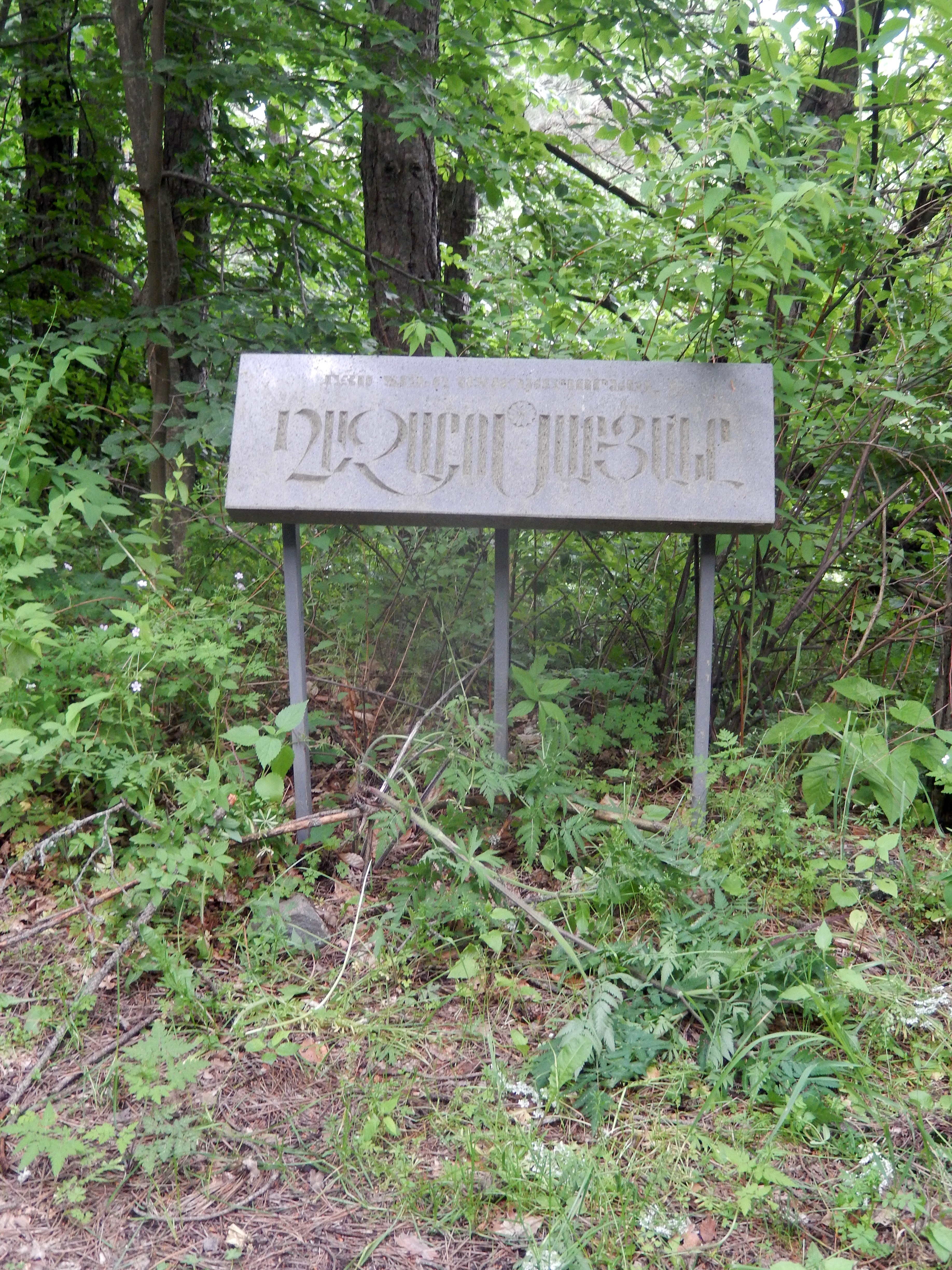 Ghazaros Saryan's plaque in Dilijan